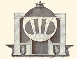 Old advertising poster for steam boilers fitted with Galloway tubes.